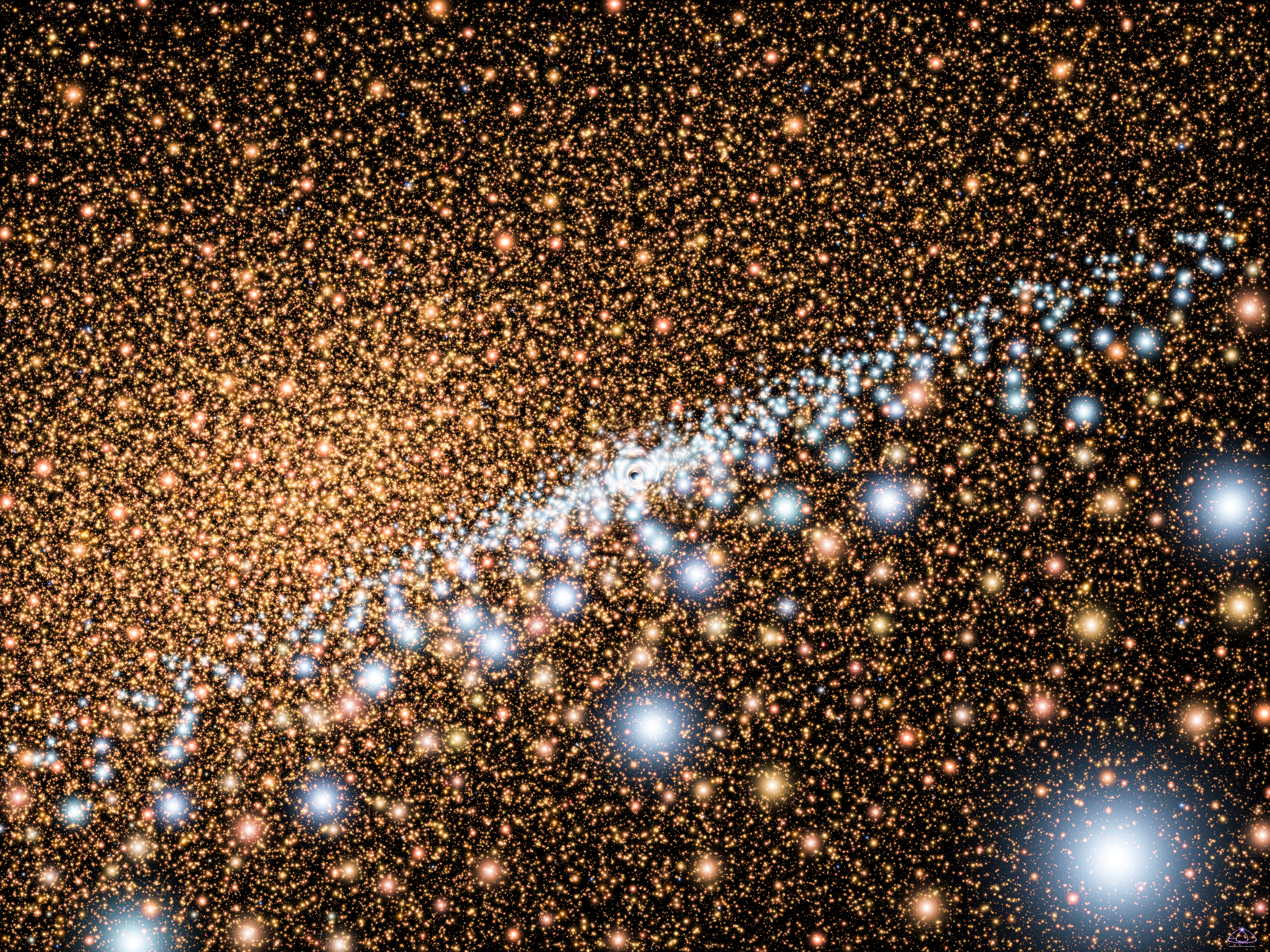 This artist's concept shows a view across a mysterious disk of young, blue stars encircling a supermassive black hole at the core of the neighboring Andromeda Galaxy (M31). The region around the black hole is barely visible at the center of the disk. The background stars are the typical older, redder population of stars that inhabit the cores of most galaxies. Spectroscopic observations by the Hubble Space Telescope reveal that the blue light consists of more than 400 stars that formed in a burst of activity about 200 million years ago. The stars are tightly packed in a disk that is only a light-year across. Under the black hole's gravitational grip, the stars are traveling very fast: 2.2 million miles an hour (3.6 million kilometers an hour, or 1,000 kilometers a second) Object Names: M31, Andromeda Galaxy, NGC 224.